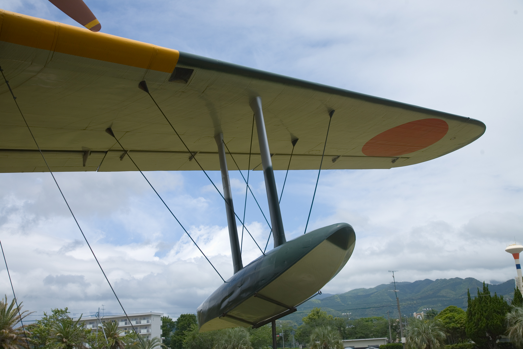 Detail of the wing float of a Kawanishi H8K2 Type 2 flying boat at Kanoya Museum in Japan. It was codenamed Emily by allied force. This example is manufacture 426.